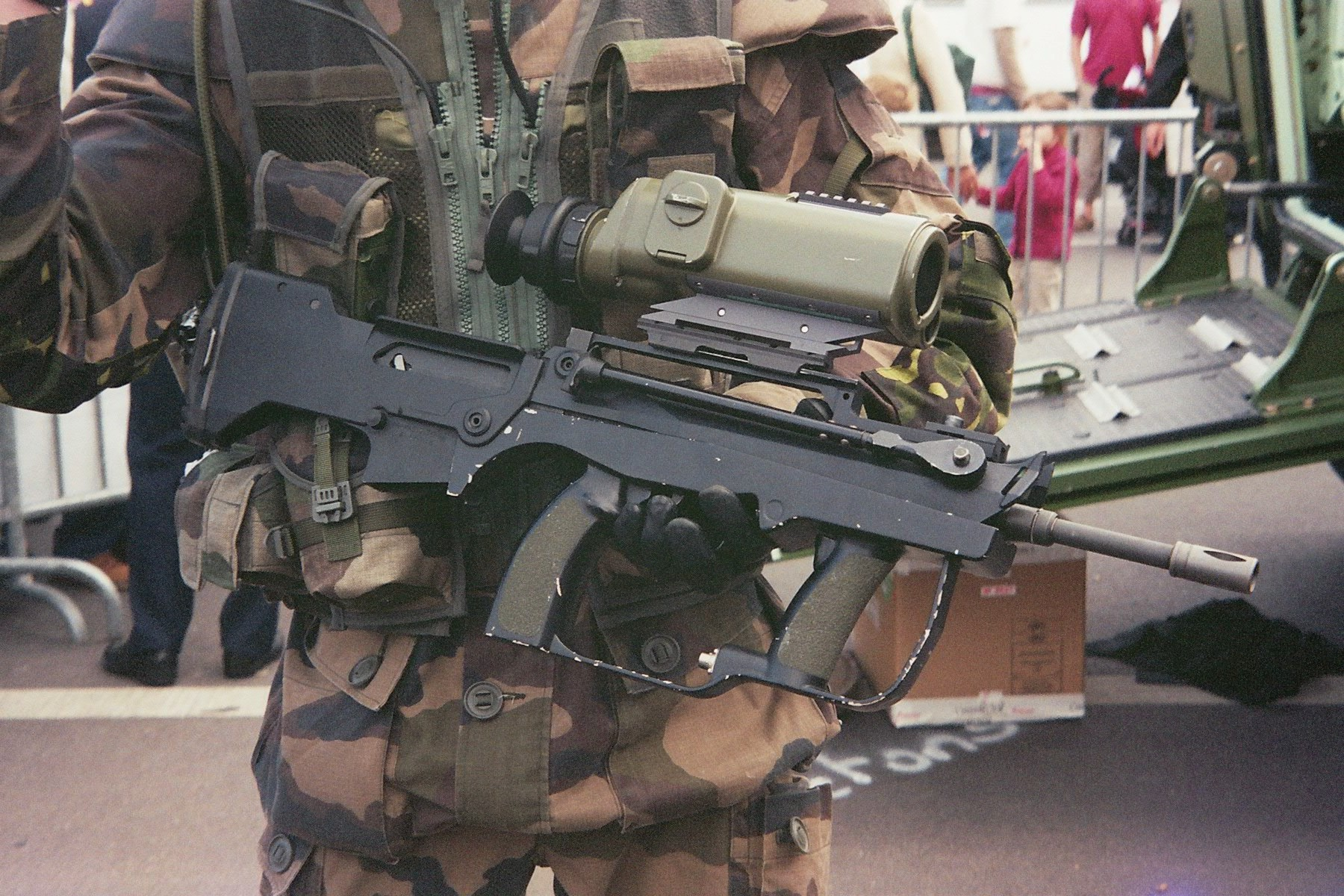 Nation/Defense days, Esplanade des Invalides, Paris, France, September 24-25, 2005: FAMAS rifle from the FELIN suite 2005 David Monniaux